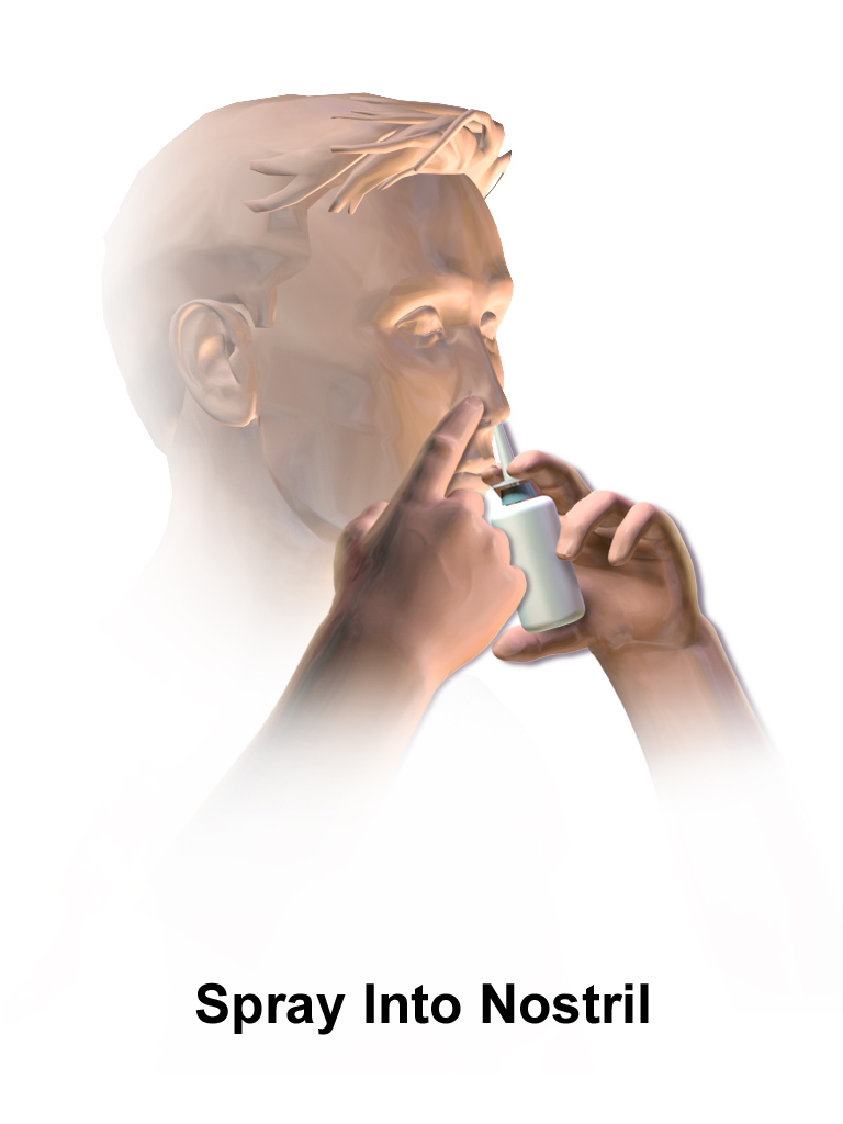 An illustration depicting a nasal spray.